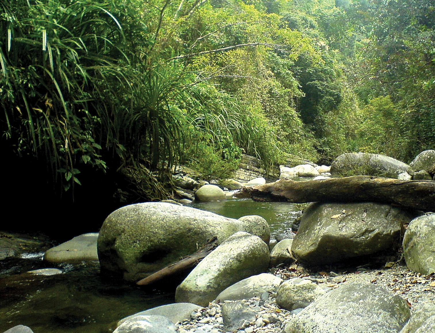 Small to medium sized, permanent forest streams with heterogeneous morphology and rich in submerged woods and root packs are usually inhabited by the highest numbers of Ancyronyx species. This picture shows the type locality of Ancyronyx montanus where also Ancyronyx minerva, Ancyronyx patrolus, Ancyronyx pseudopatrolus and Ancyronyx punkti occurred sympatrically.